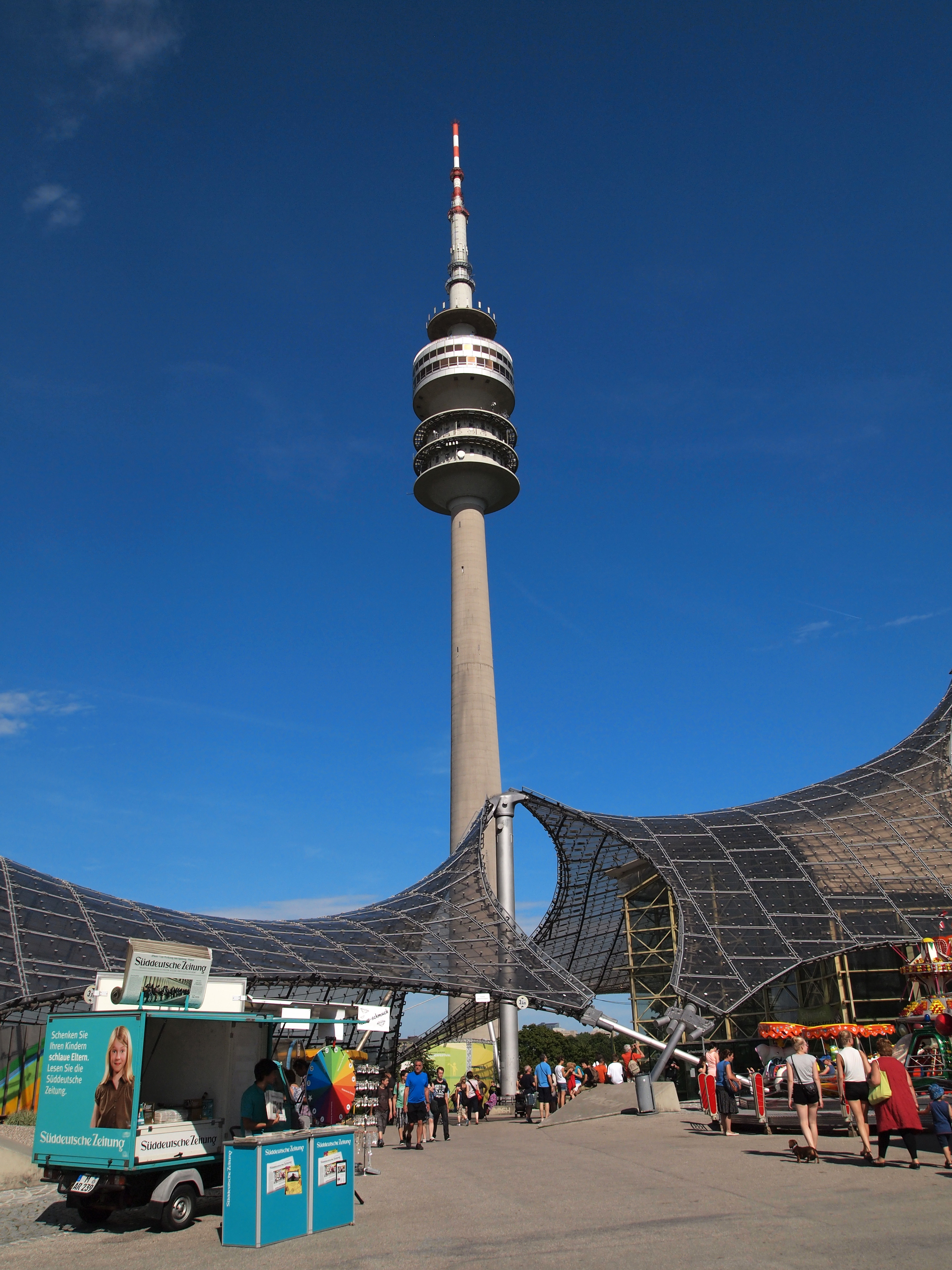 Olympiaturm in Munich.This photograph was taken with an Olympus E-PL1